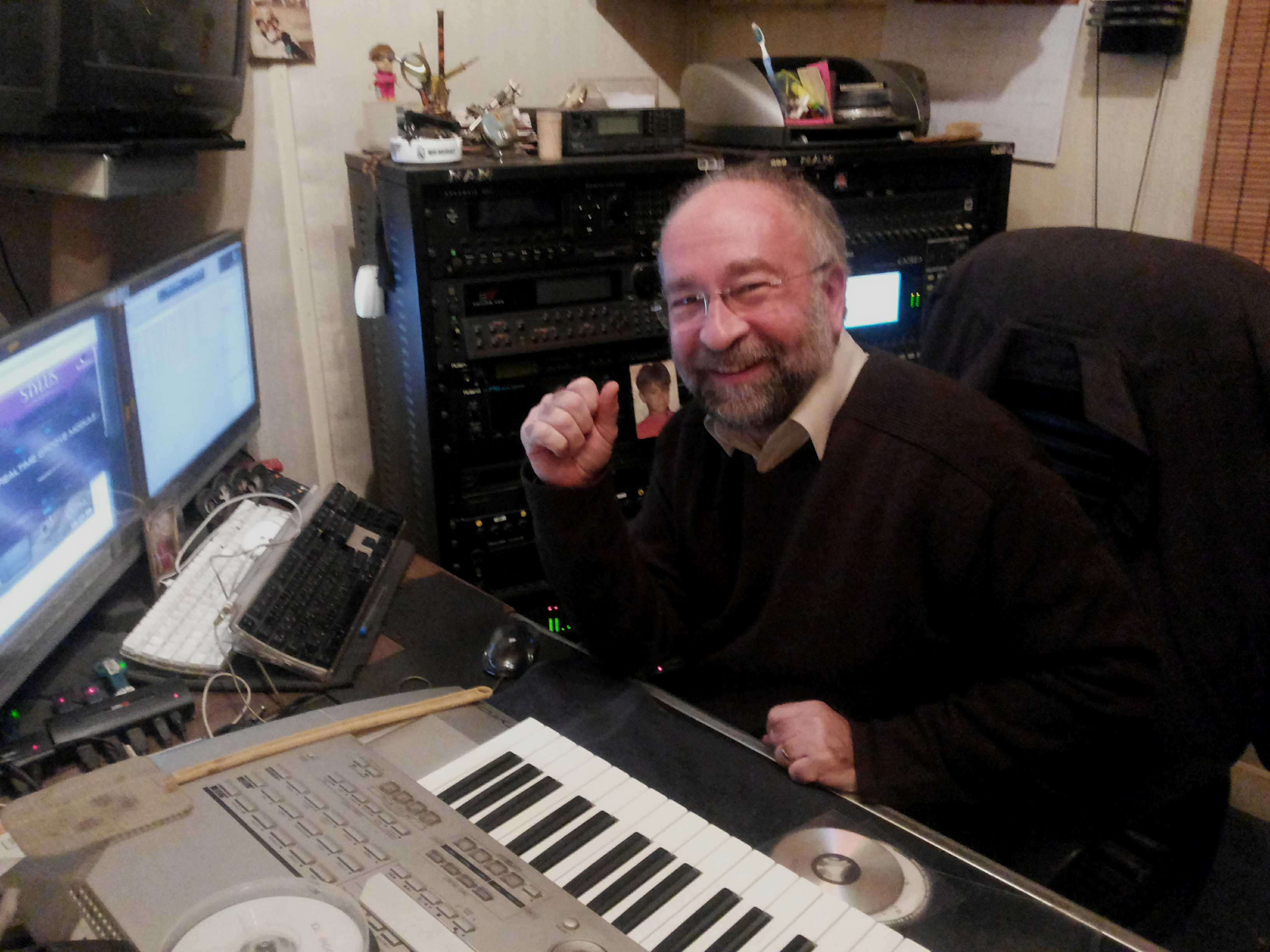 Egyptian composer Nabil Ali Maher in his studio